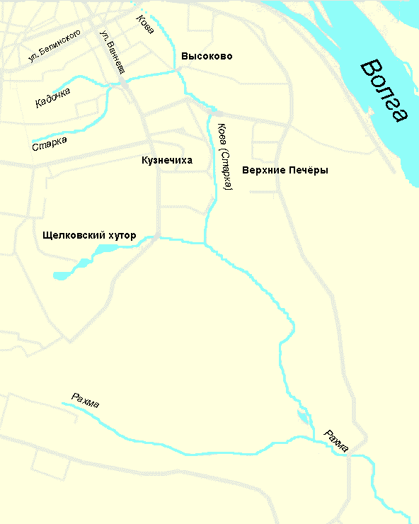 The plan of Starka river in Nizhny Novgorod